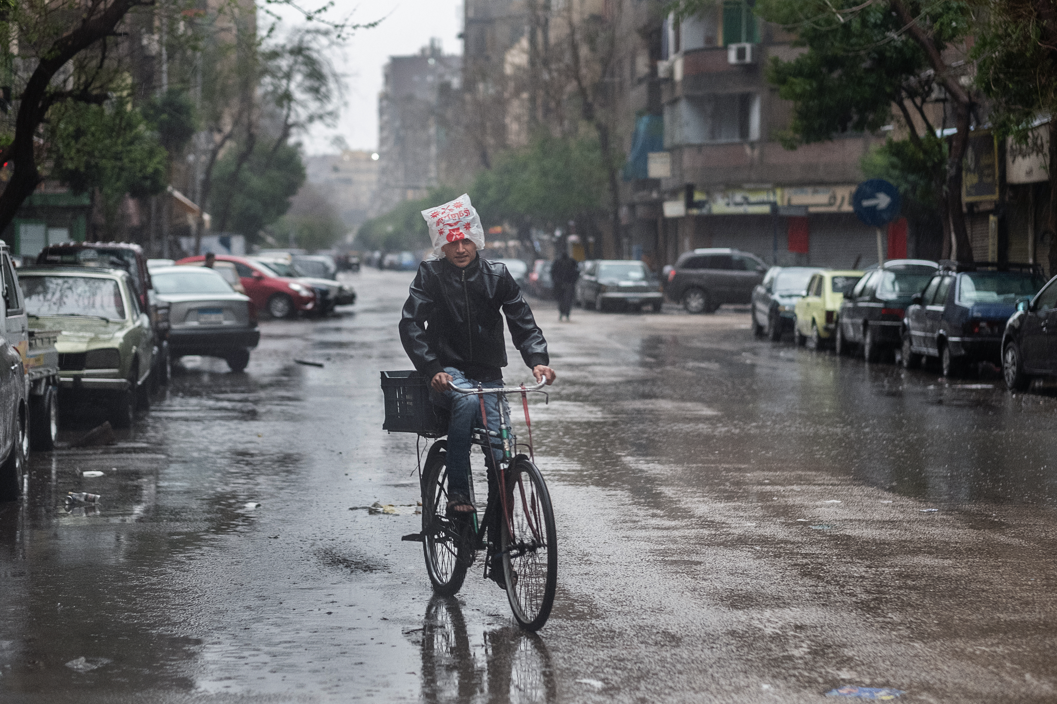 worker during hard rainy day in cairo This is an image with the theme "Africa on the Move or Transport" from: Egypt